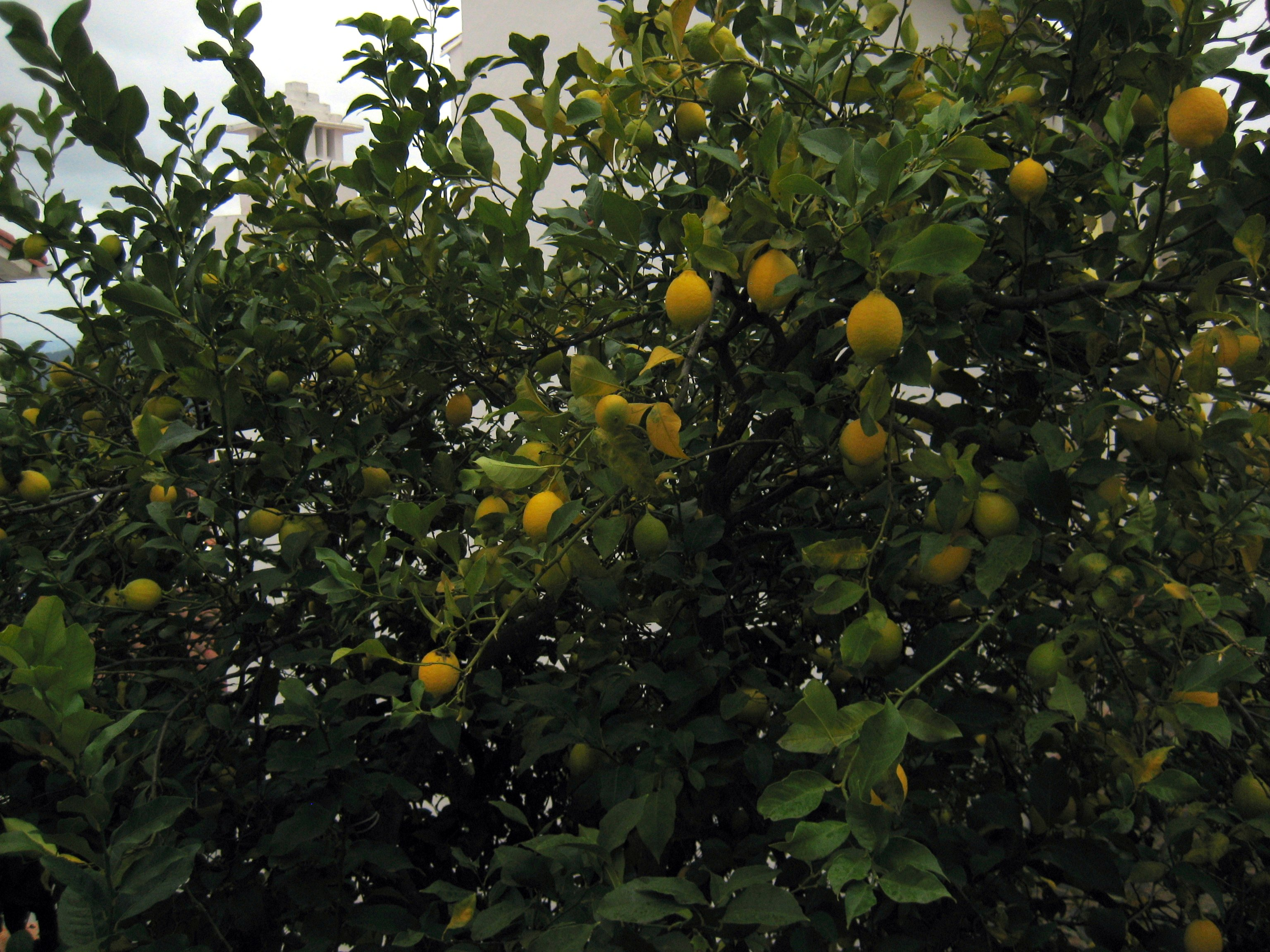 Lemon tree in Genalguacil, Málaga, Spain